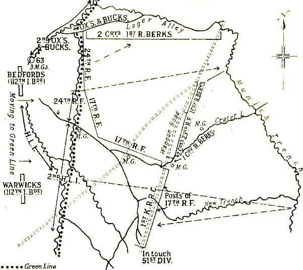 Diagram 2nd Division positions Battle of the Ancre 14 November 1916